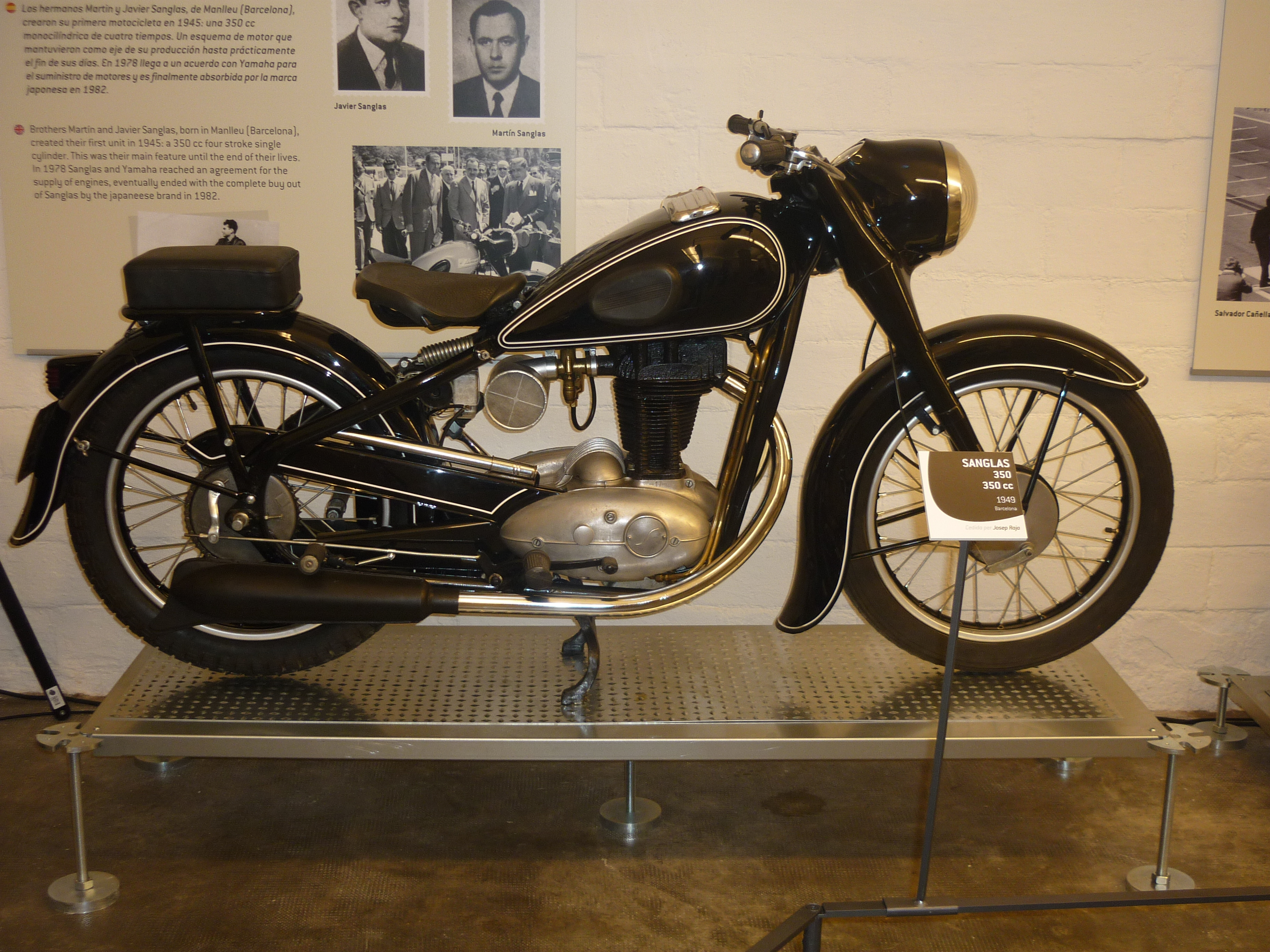 Sanglas 350 350cc (1949). Museu de la Moto de Barcelona (Catalonia).